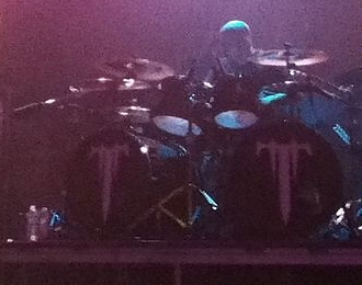 Nick Augusto live in concert in Los Angeles.